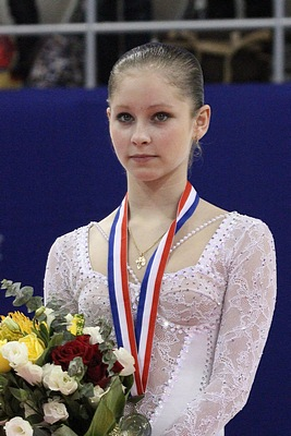 Yuliya Lipnitsкaya at the Cup of China 2012